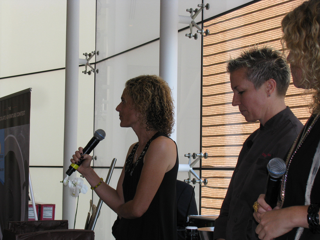 Chef Elizabeth Falkner and Scharffen Berger Chocolate at blogherfood09